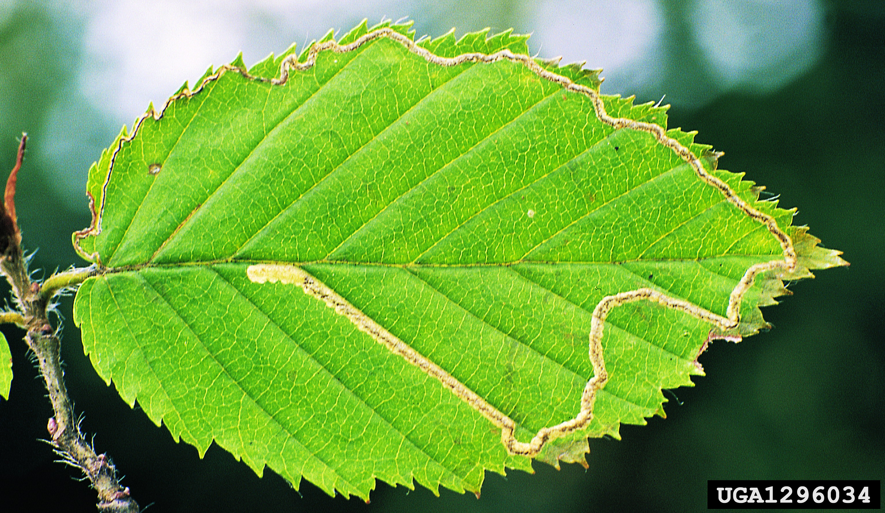 Stigmella microtheriella damage